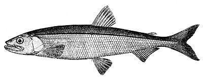 Rainbow smelt, Osmerus mordax